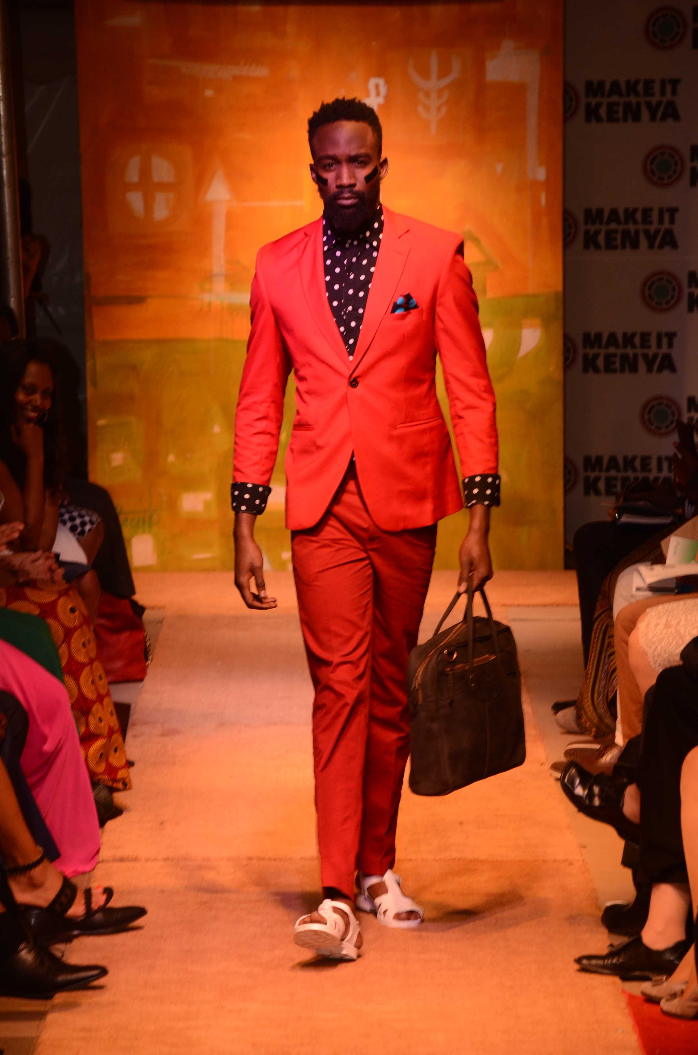 Photo: Joseph Kiptarus